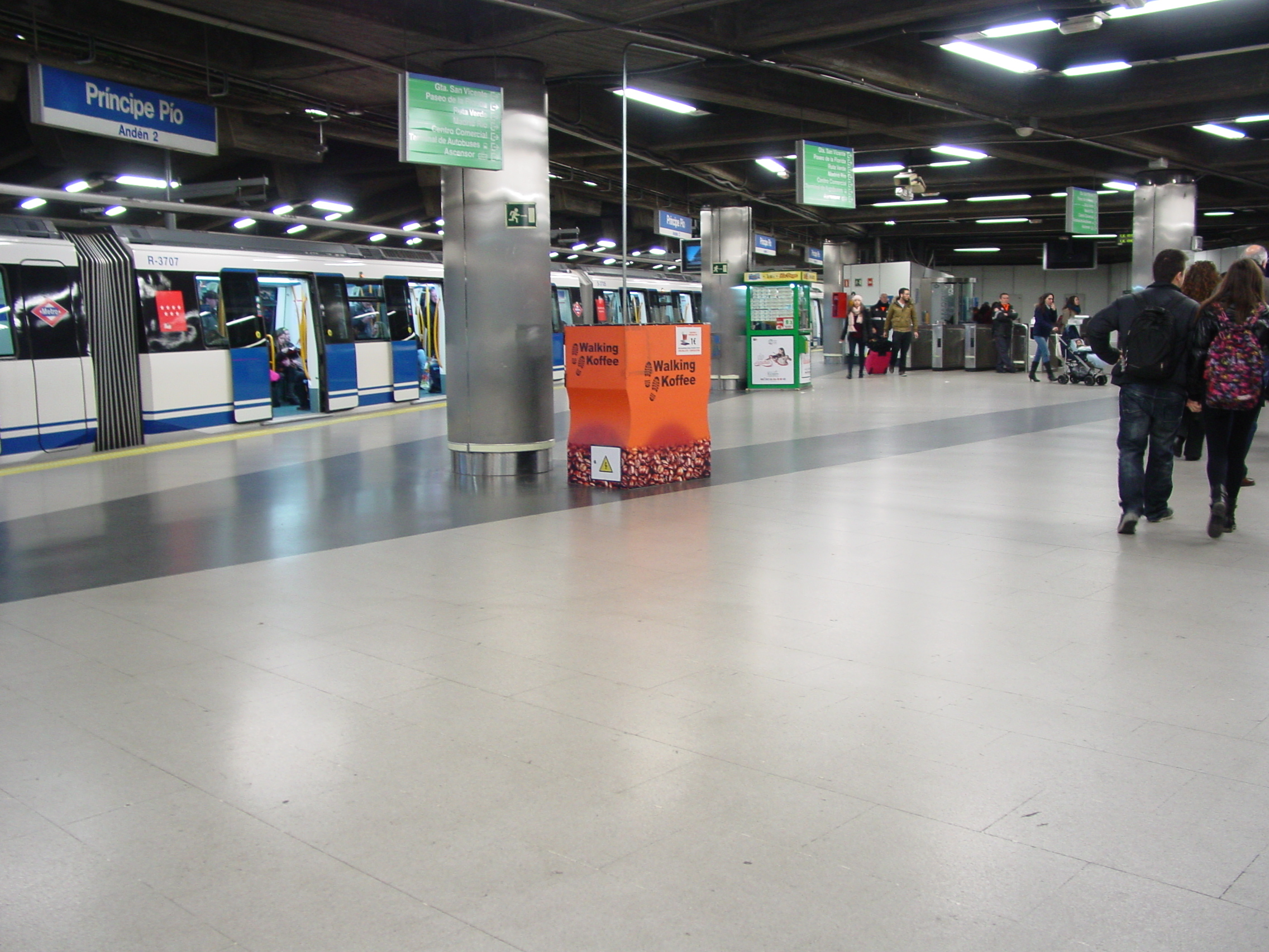 Platform view of Principe Pio station, Madrid Metro, line R (Ramal). 2.2.2014